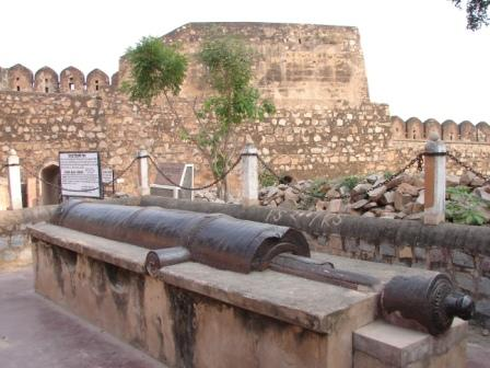 famous canon as Jhansi fort: "Kadak Bijli"